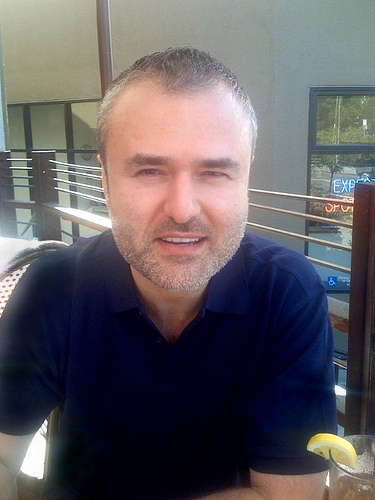 Nick Denton at Barney's in Berkeley